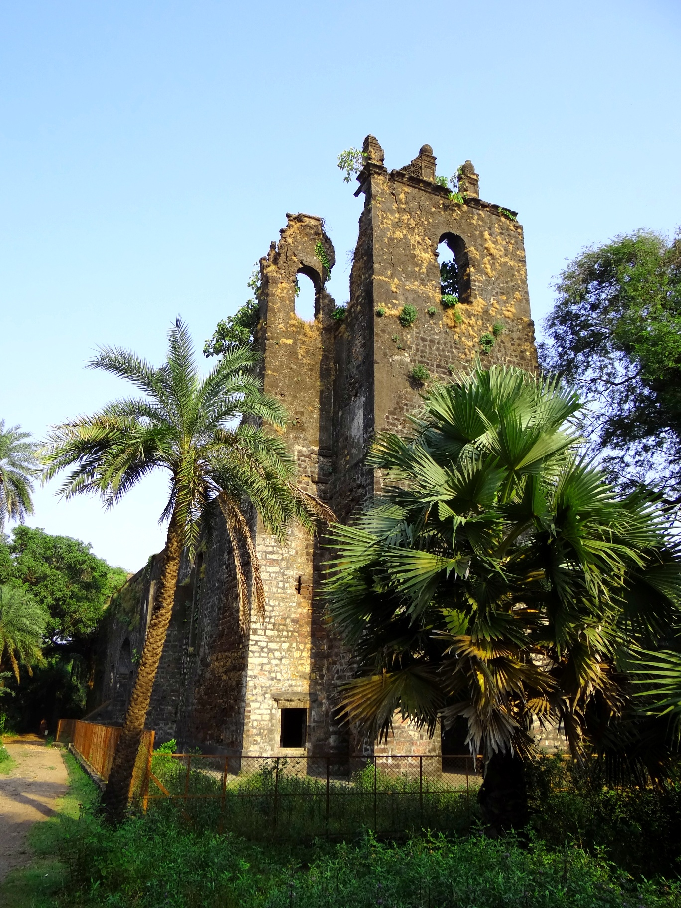 Vasai fort facade